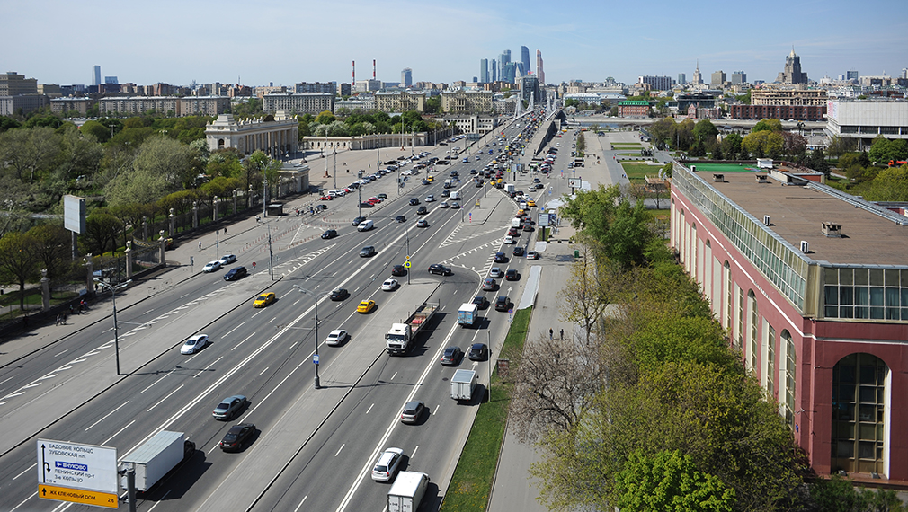 Krymsky Val street in Moscow, part of Garden Ring